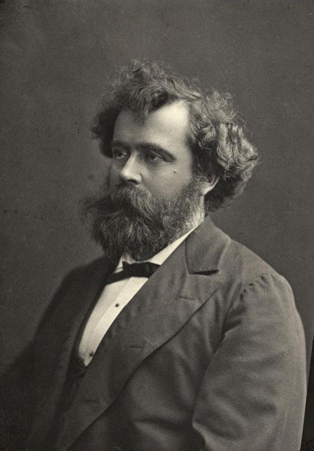 Portrait of the sculptor and politician Léon-Alexandre Delhomme by Marius in the